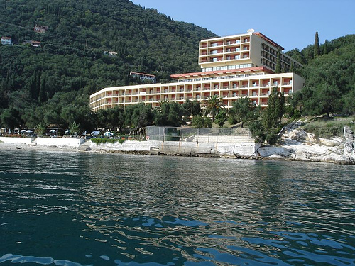 Hotel Nissaki, Corfu Licence : Creative Commons 2.0 Author : Holger.Huenermund Source : Flickr